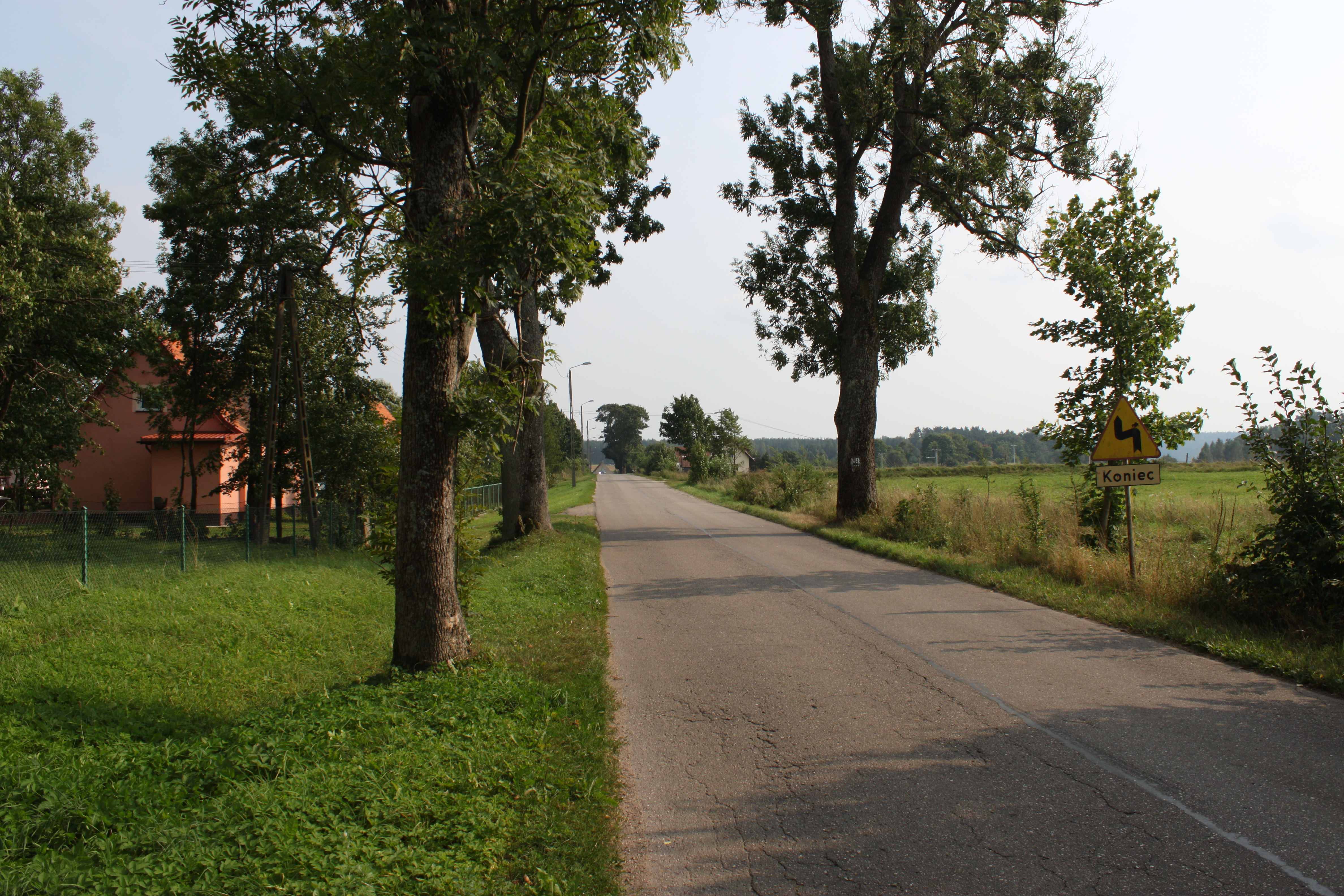 Road in Orzyny.